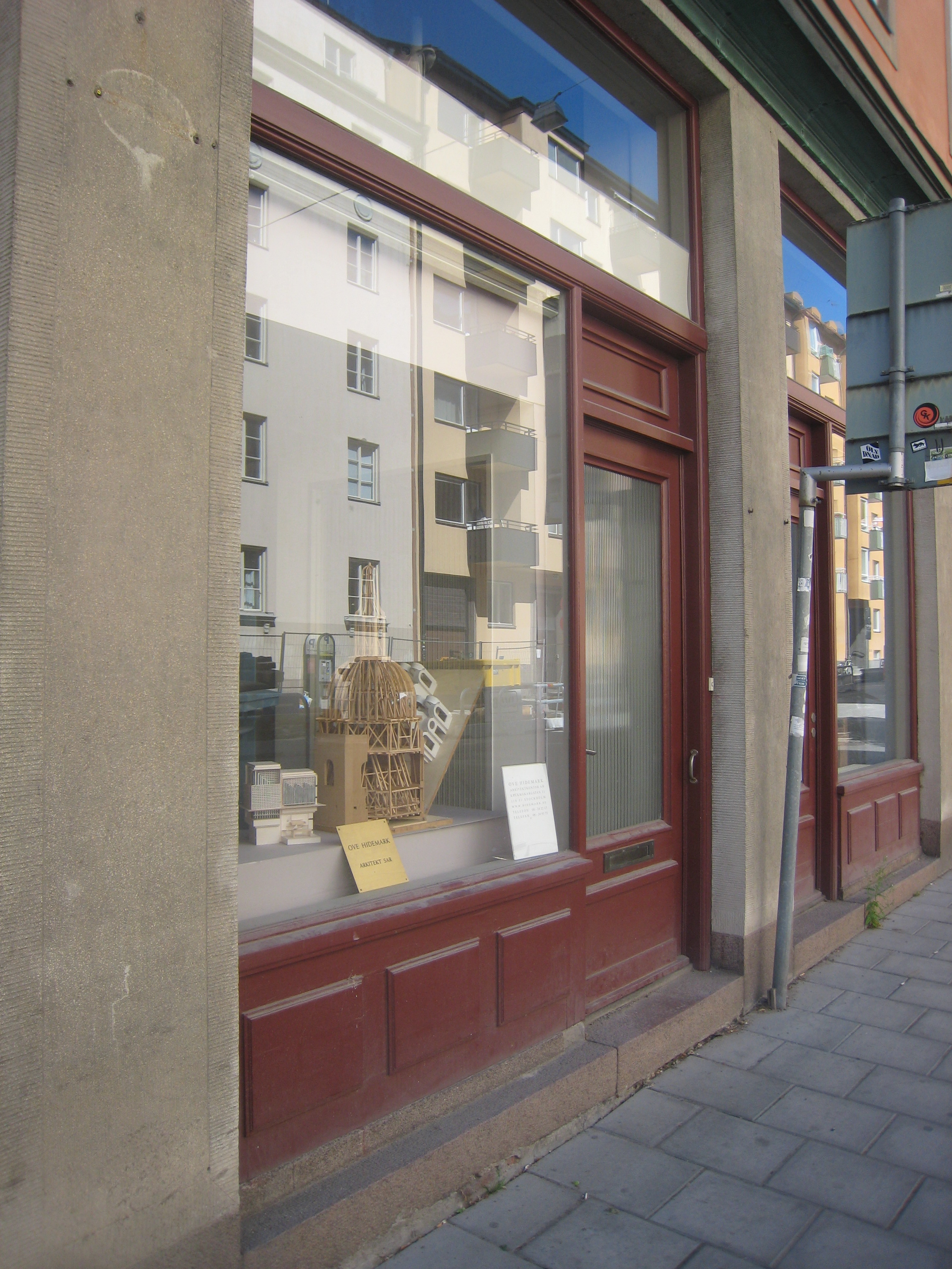 Ove Hidemark Arkitektkontor AB, Krukmakargatan 31.